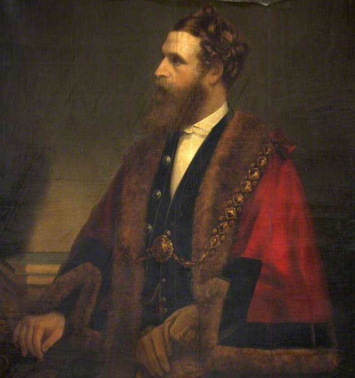 William Killigrew Wait. Image cropped from the original.